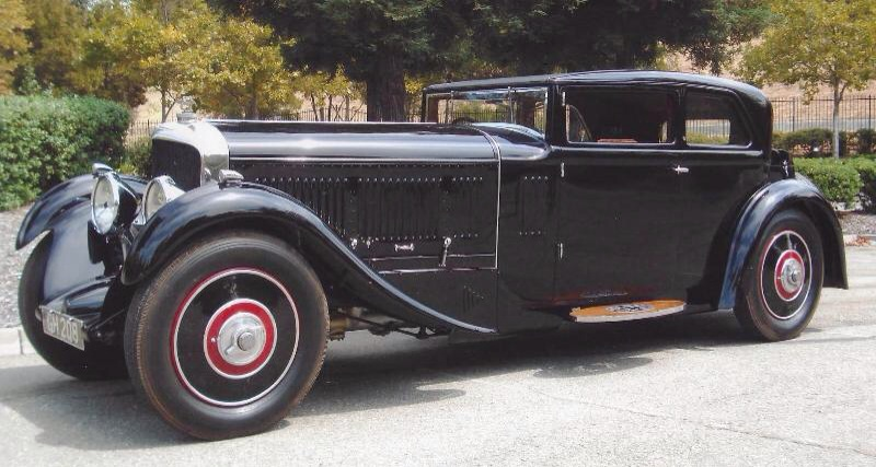 1930 Bentley Speed Six (#HM2861) with original coupé body by Corsica. Bentley Speed Six saloon body by Corsica 1930 Original coachwork Chassis HM2861 12ft 8½inches wheelbase Engine HM2865 Speed Six Reg GH 208 delivered September 1930 Source of data—Vintage Bentleys